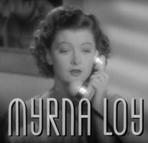 Cropped screenshot of Myrna Loy from the trailer for Another Thin Man